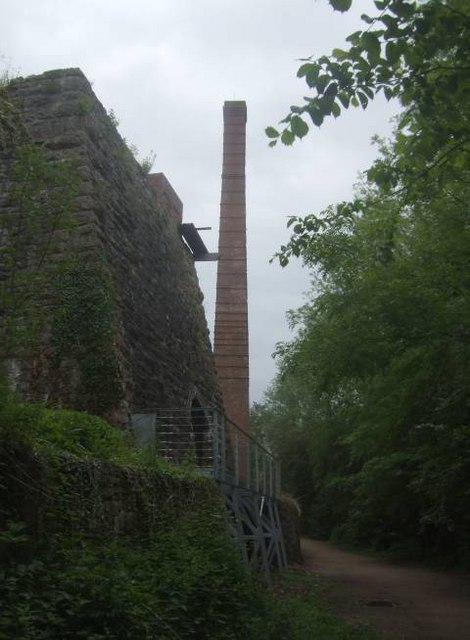 Lime kilns and chimney The traditional lime kilns were replaced by a Hoffmann Kiln with its brick chimney. Technology had moved on even before its completion in 1899 and it closed in 1914 with the advent of war. The manufacturing process was labour intensive and particularly unpleasant.